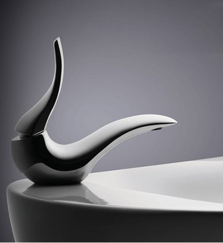 This is a self photographed image of the products of the firm, which was shooted by me. It will be useful for the readers for their knowledge.